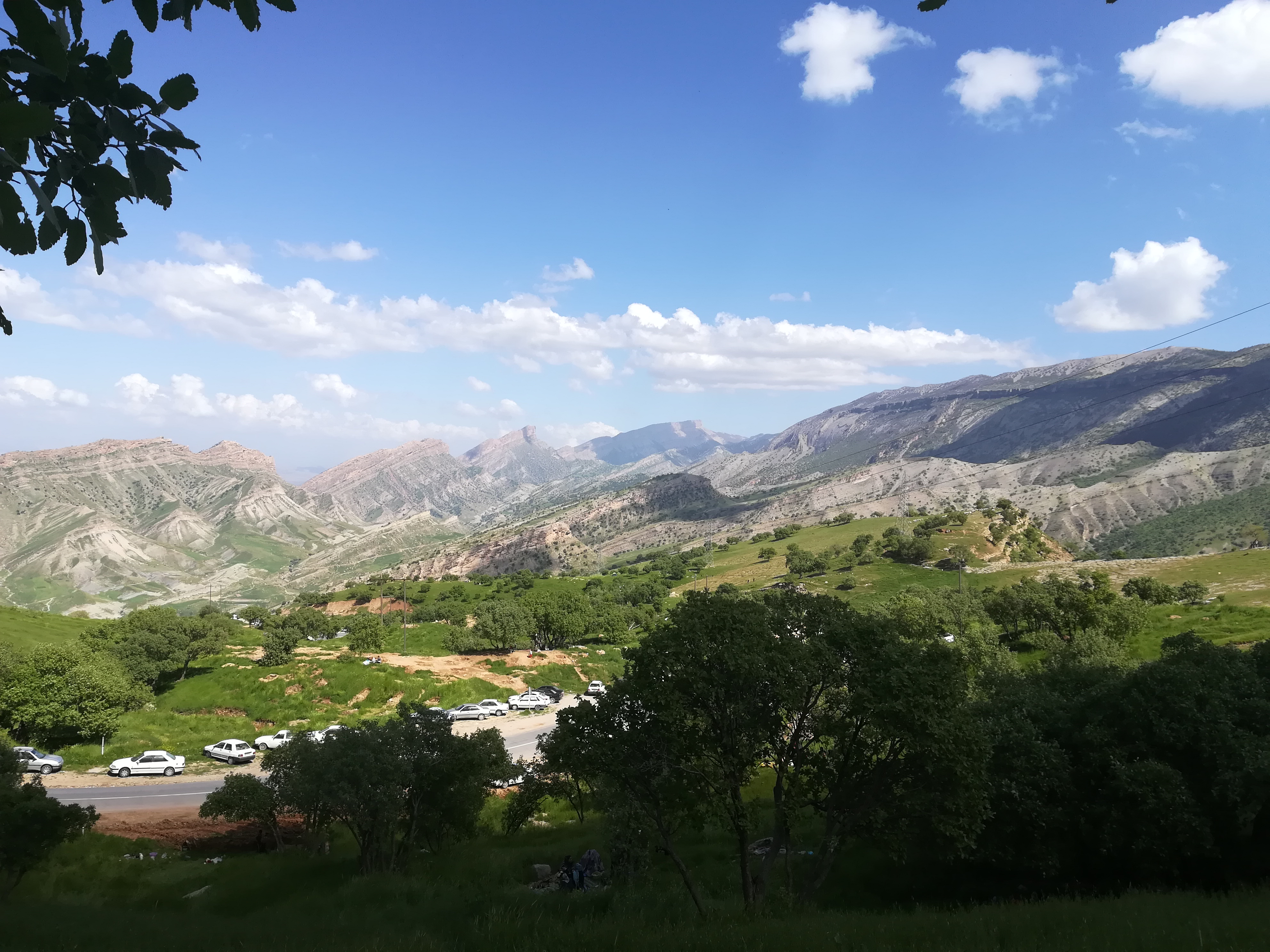 Kabir Kouh ranges in Darreh Shahr County, Ilam Province, Iran.